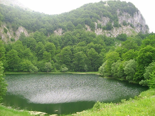 Donje Bare lake in Zelengora mountains, BiH